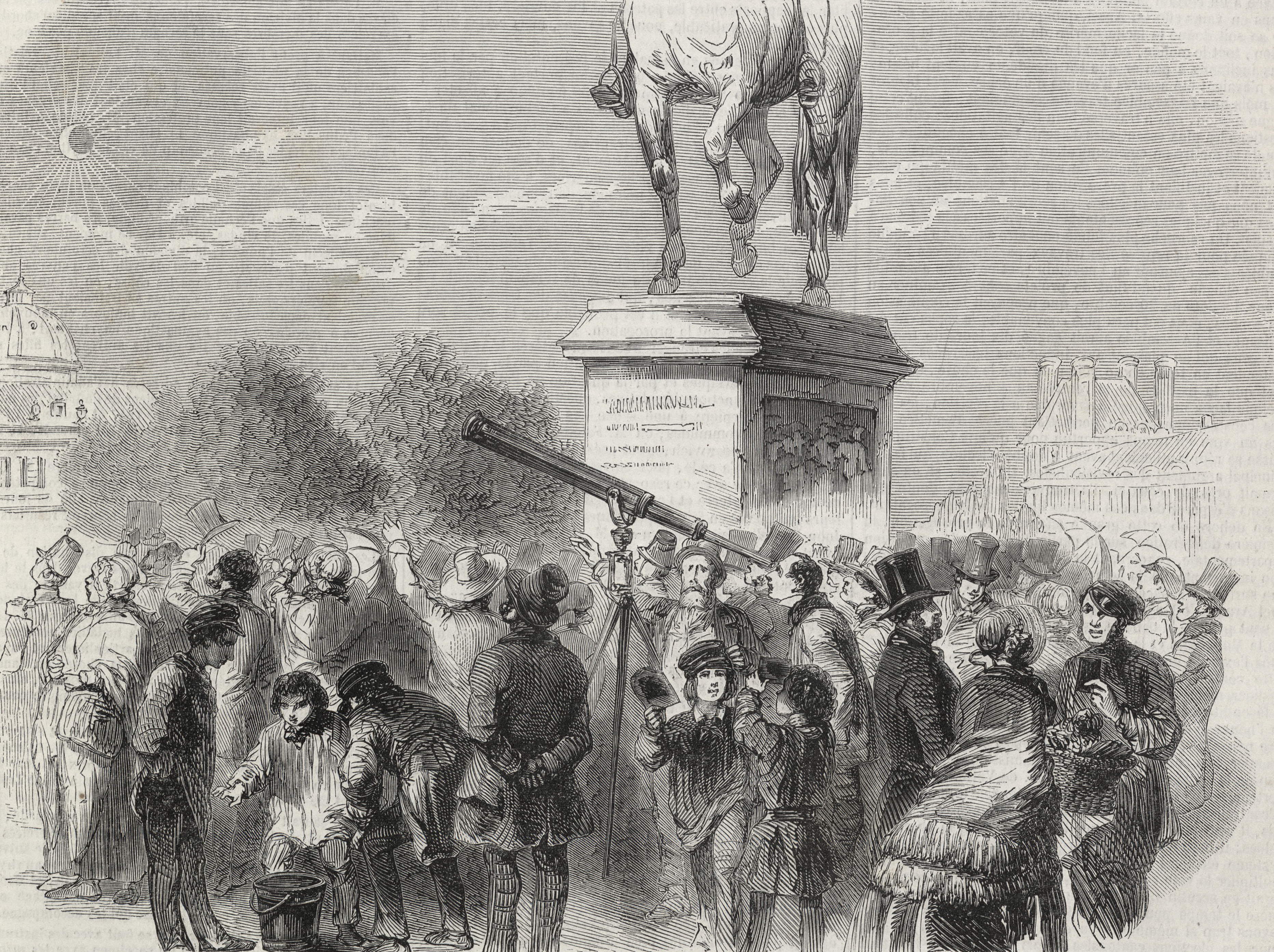 This print shows Parisians watching the solar eclipse of July 28, 1851, next to the Invalids. On that day, the Assembly cancelled its summit so that members could watch the event.